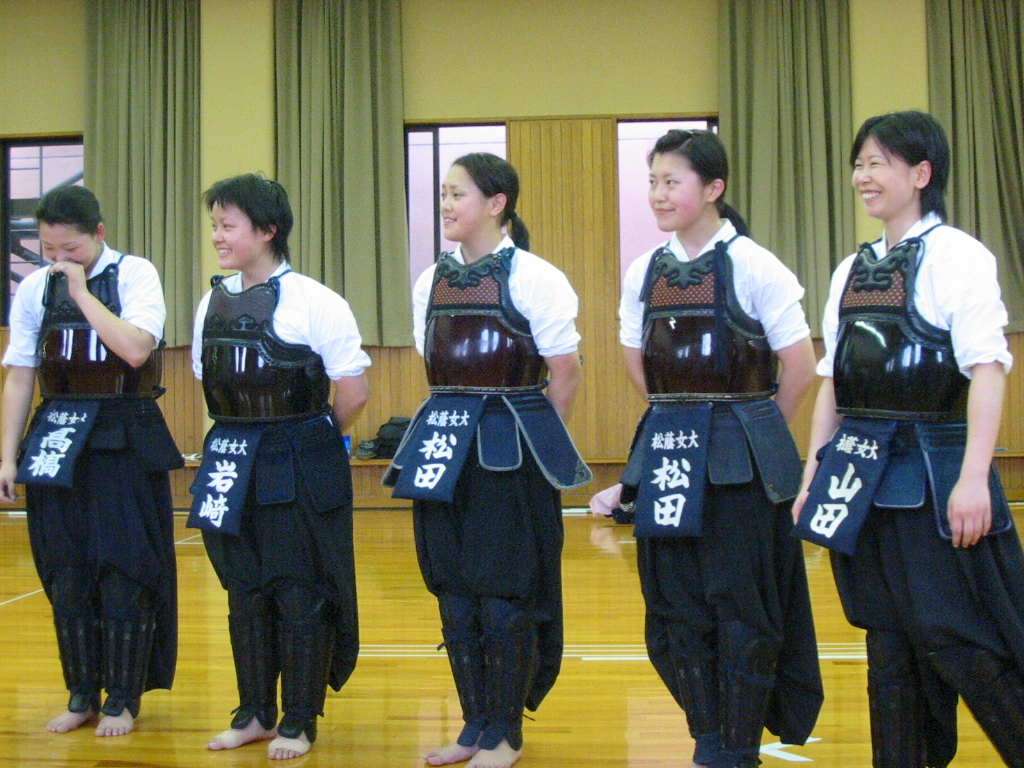 Modern naginata sparring armor, minus helmets